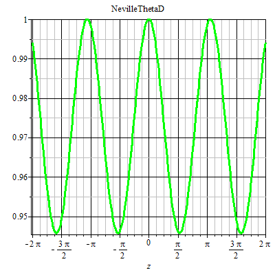 Neville ThetaD function Maple plot